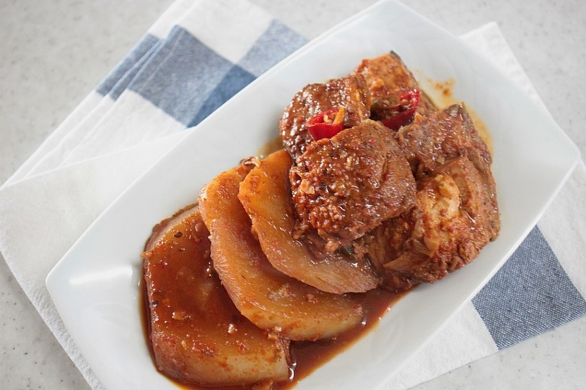 godeungeo-jorim (braised mackerel)